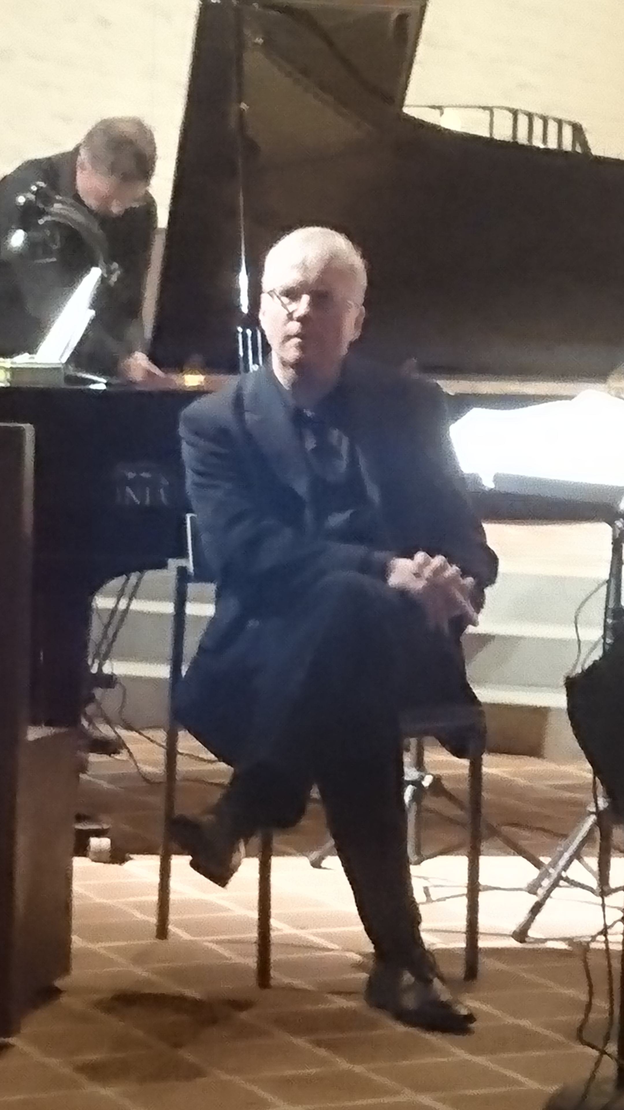 Andrus Kallastu, Estonian composer and conductor, in a panel discussion on theatrality in music, during a concert by Repoo Ensemble in St. John's church in Tartu, Estonia, on 30 October 2019.